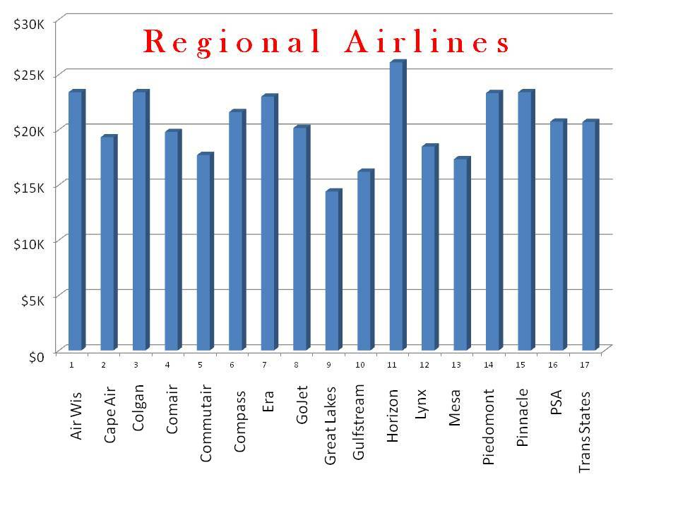 First year regional pilot pay as reflected by data collected by , an industry career site. Effective date: Aug 2011